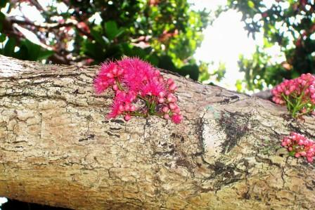 Syzygium_moorei_-_flowers_close up, Sydney Botanic Gardens